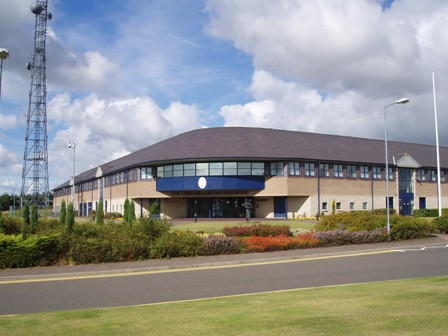 Fife Constabulary HQ, Viewfield, Glenrothes; source Michael Westwater